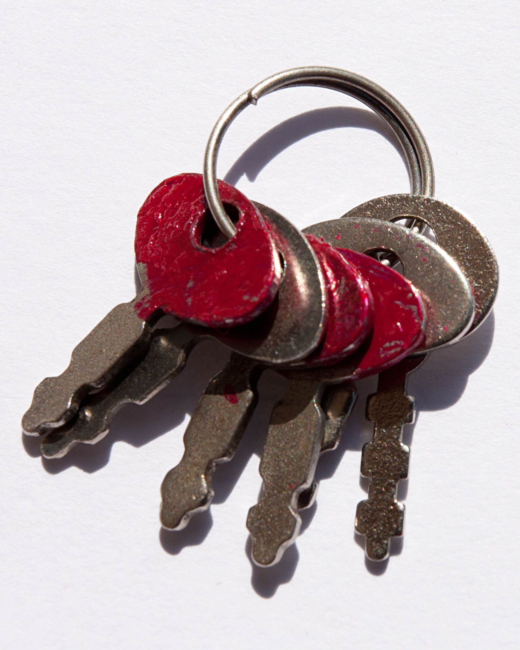 A distinguishing coloring of a ring of six keys. Using two colors (here, red and uncolored) for the handles of the keys allows each key to be uniquely distinguished from the others by its position in the coloring.